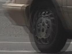 An example of interlaced video showing a wheel of a moving car.